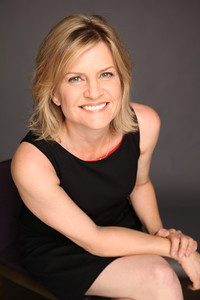 Photograph of Carol Barbee, with all rights given to her by original photographers Lesley Bohm Photography